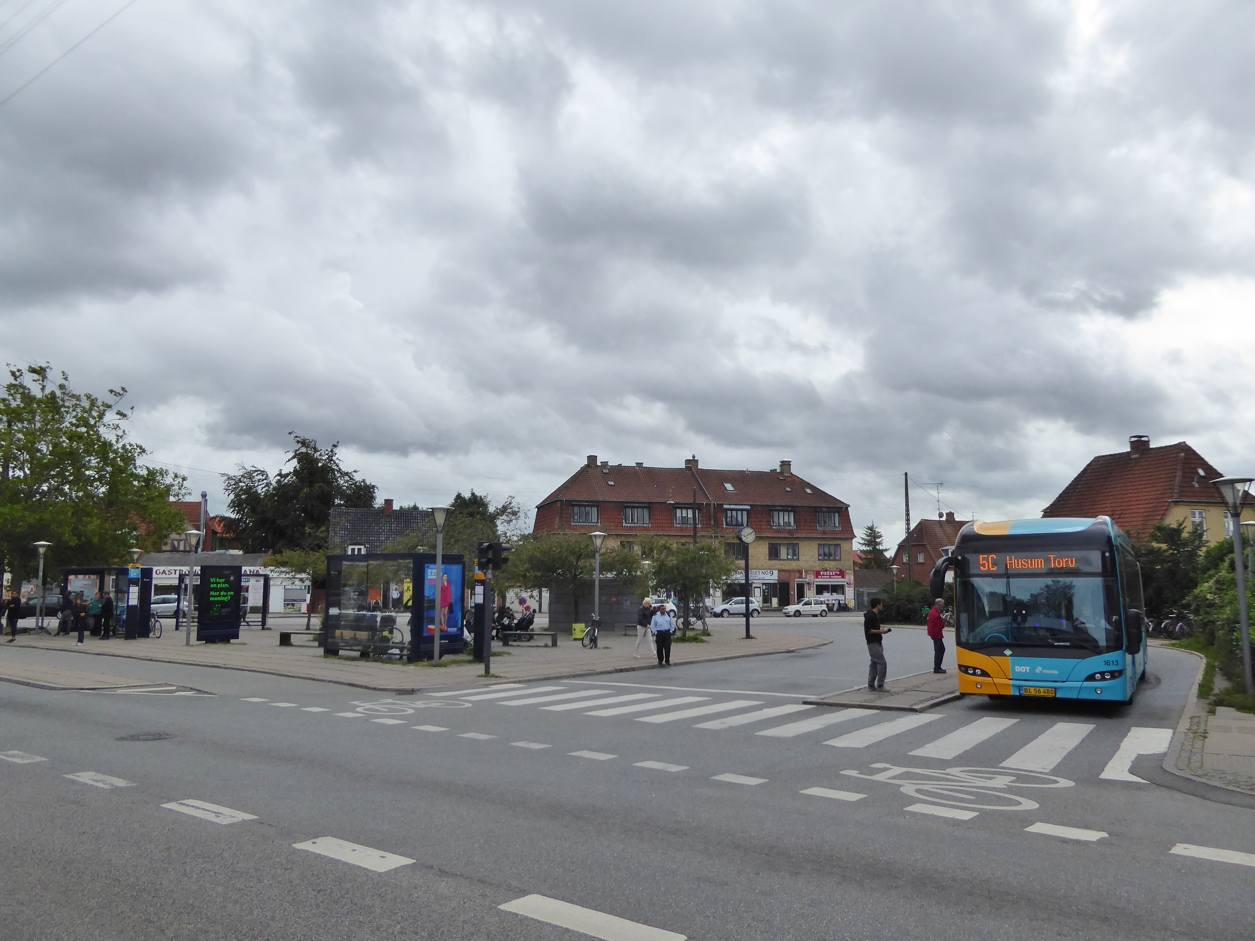 Movia bus line 5C at the square and bus station Husum Torv in Husum in Copenhagen.